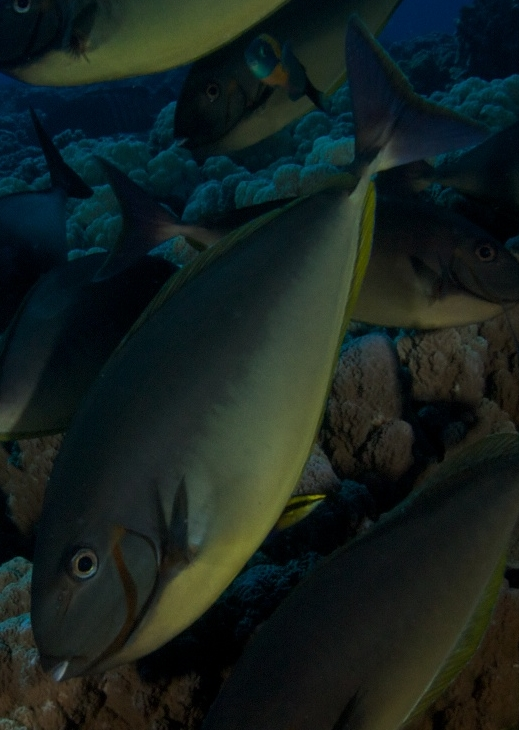 A common cleaning station where fish can go get cleaned by Hawaiian Cleaner Wrasse.